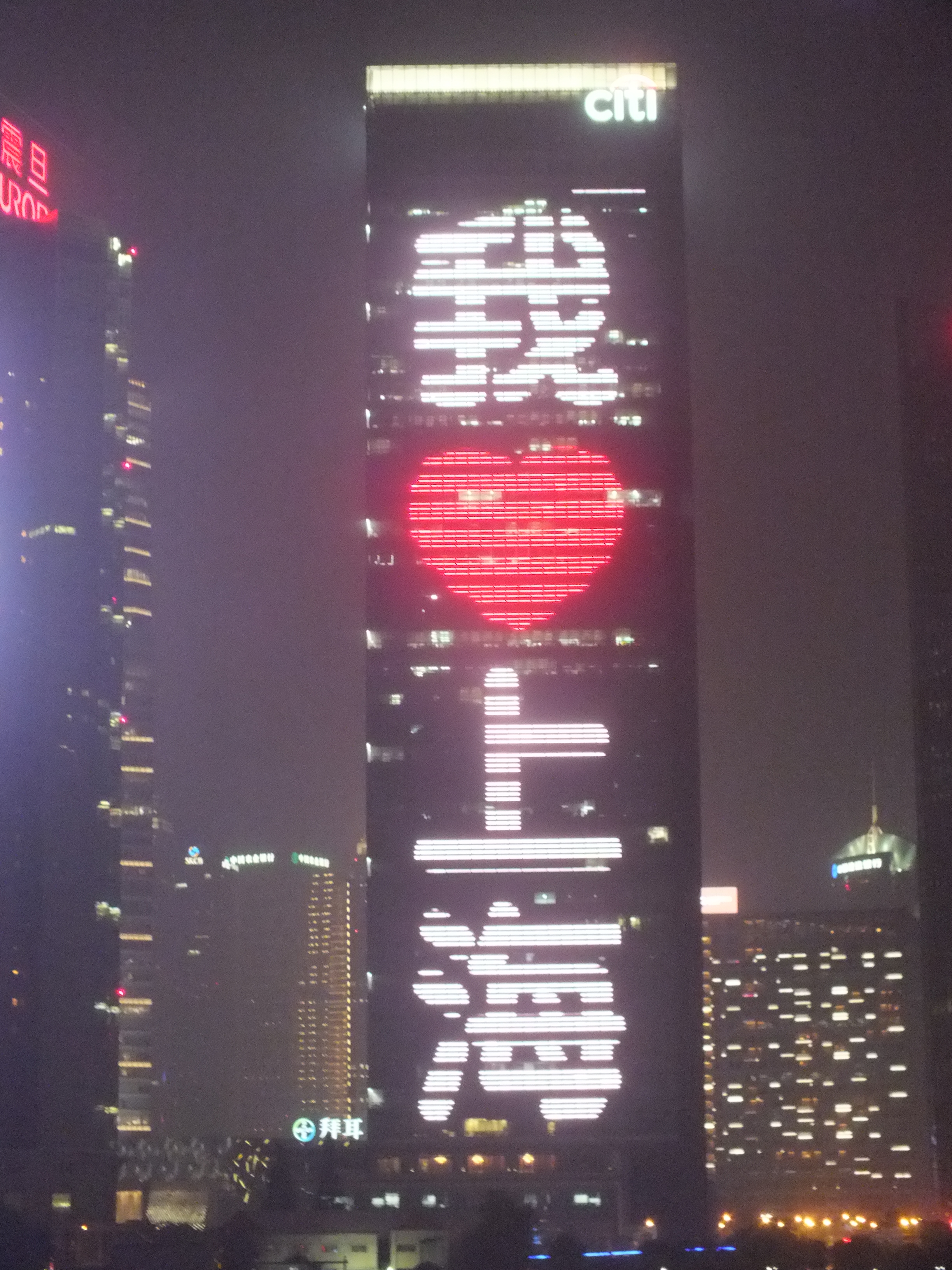 A Sign "I LOVE SHANGHAI" in Shanghai (c) SquidHomme